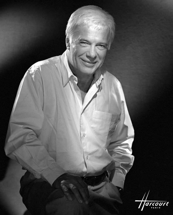 Guy Bedos photographed by Studio Harcourt Paris